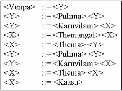 Production rules for a Kural created by self -- Sundar 12:04, Nov 24, 2004 (UTC)